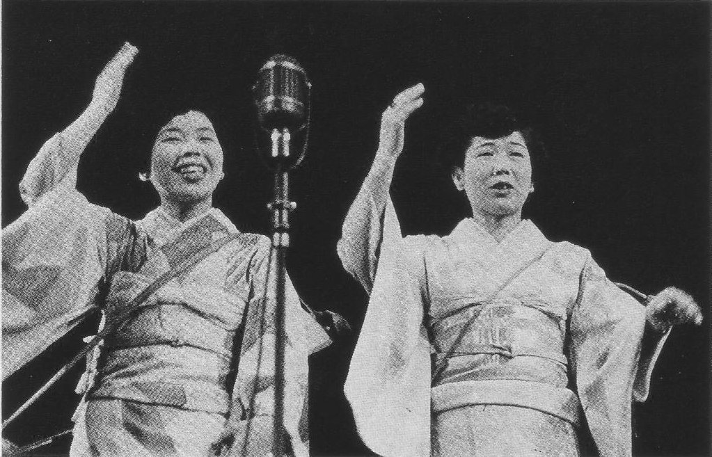 "Utsumi Keiko and Yoshie" (Japanese female Manzai performers).